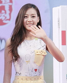 Skarf Tasha in May 2013